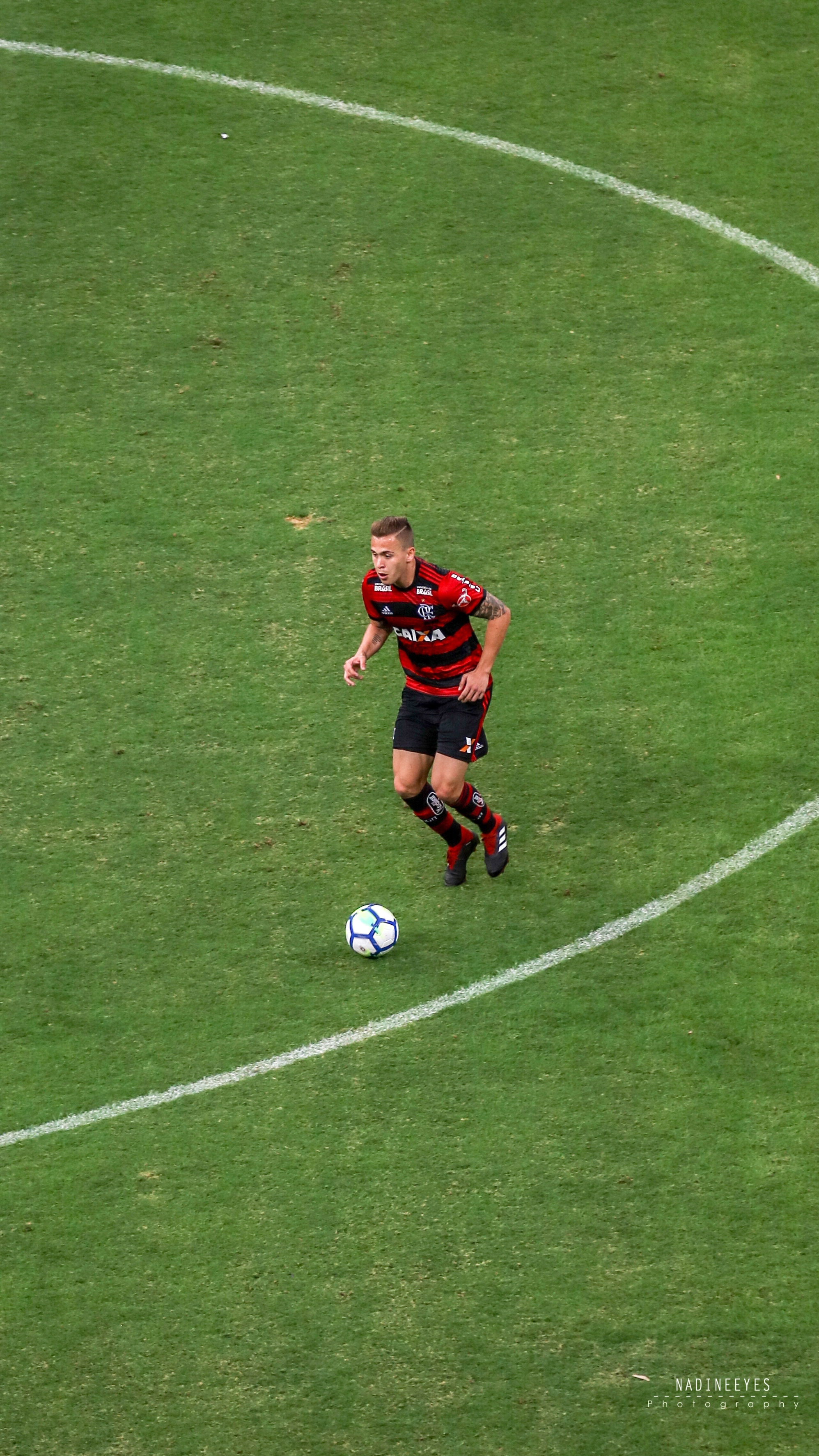 2018 Campeonato Brasileiro Série A – Flamengo v Vasco, 15 September 2018